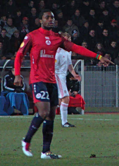 Aurélien Chedjou (LOSC), football player